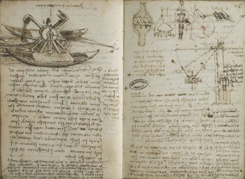 Paris Manuscript E